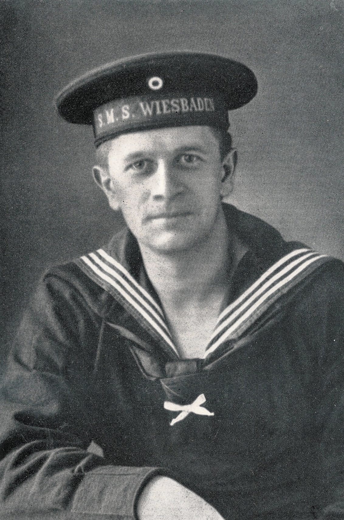 Gorch Fock, pen name of the German writer Johann Wilhelm Kinau, 1916